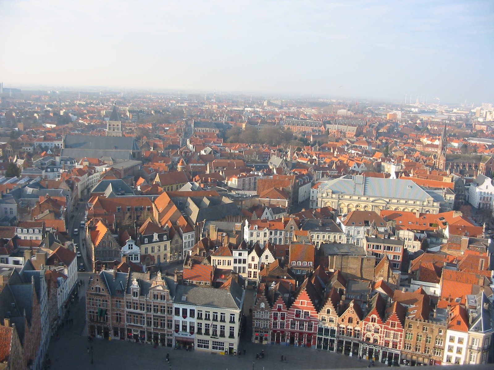 Bruges, View from the belfry